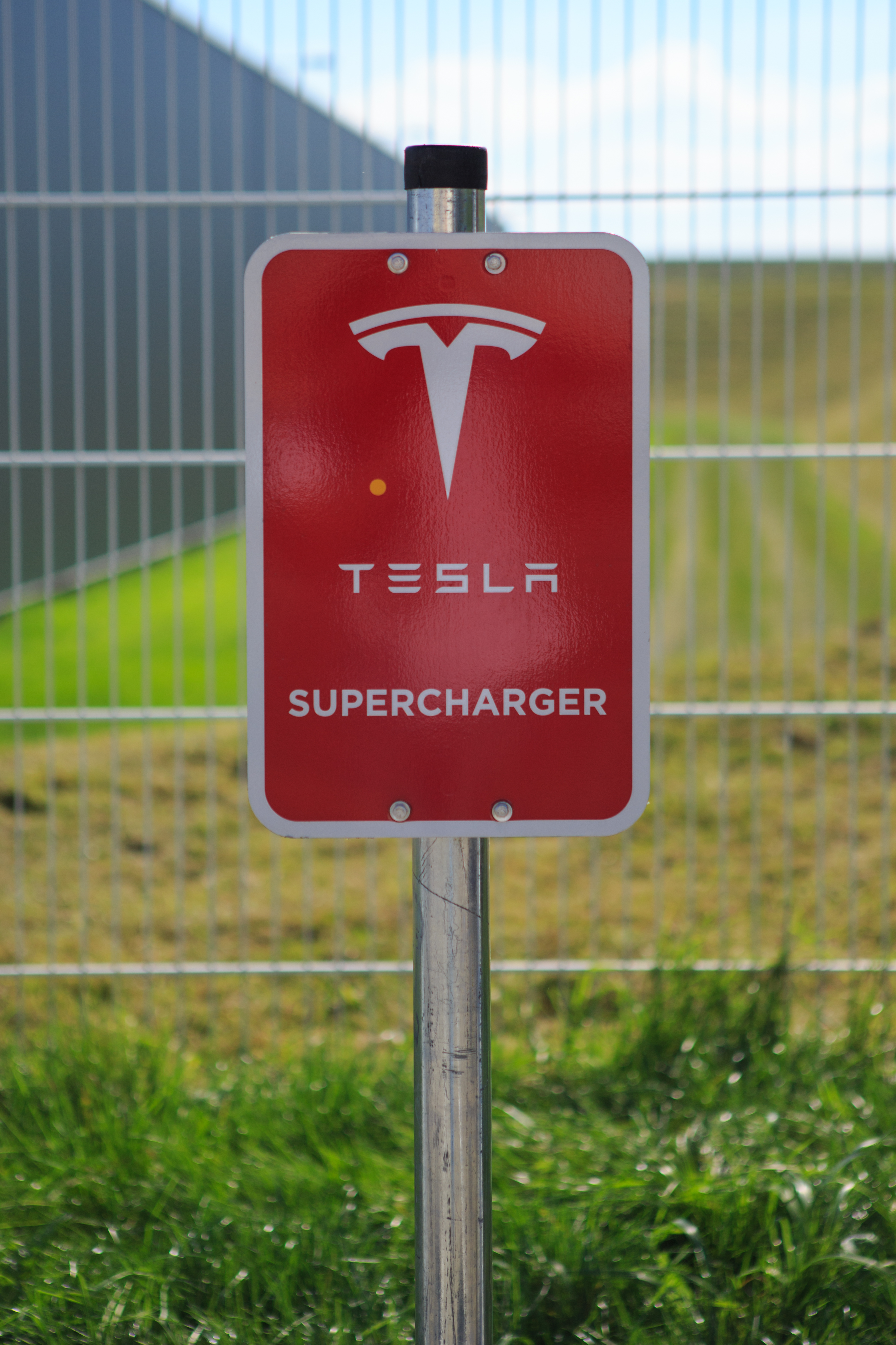 Tesla logo at Supercharger Station in Germany at the A9